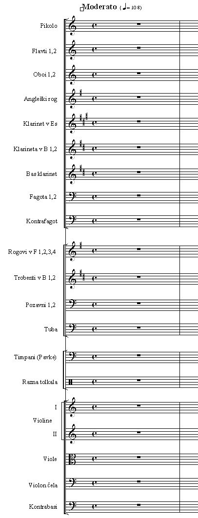 Musical score example